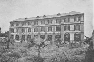 Utopia University building in Luwan